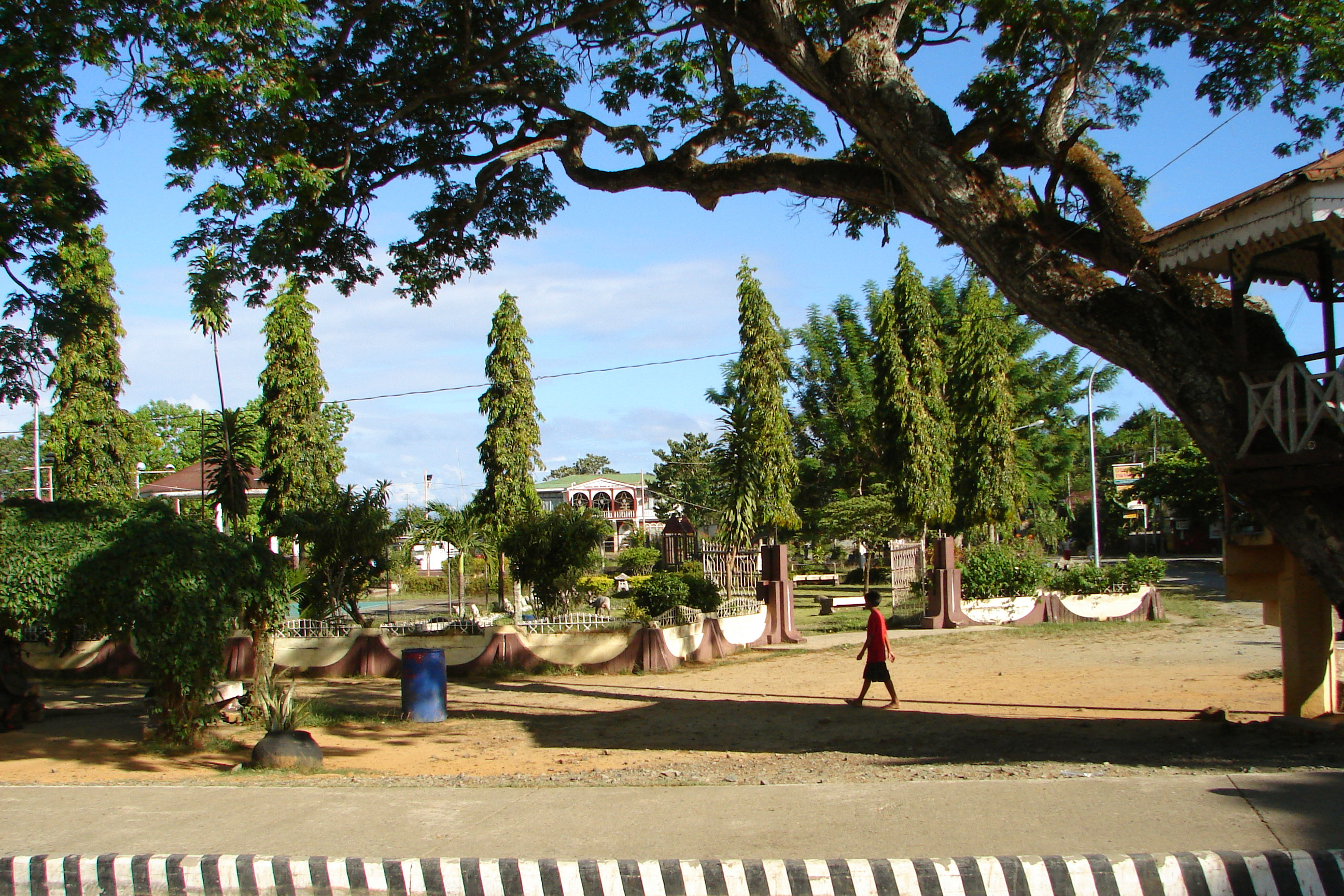 Poblacion of Getafe (with municipal hall in background), Bohol, Philippines